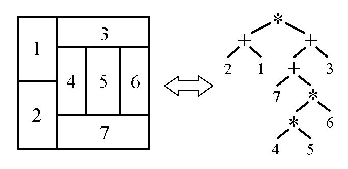 Wong's Slicing tree.